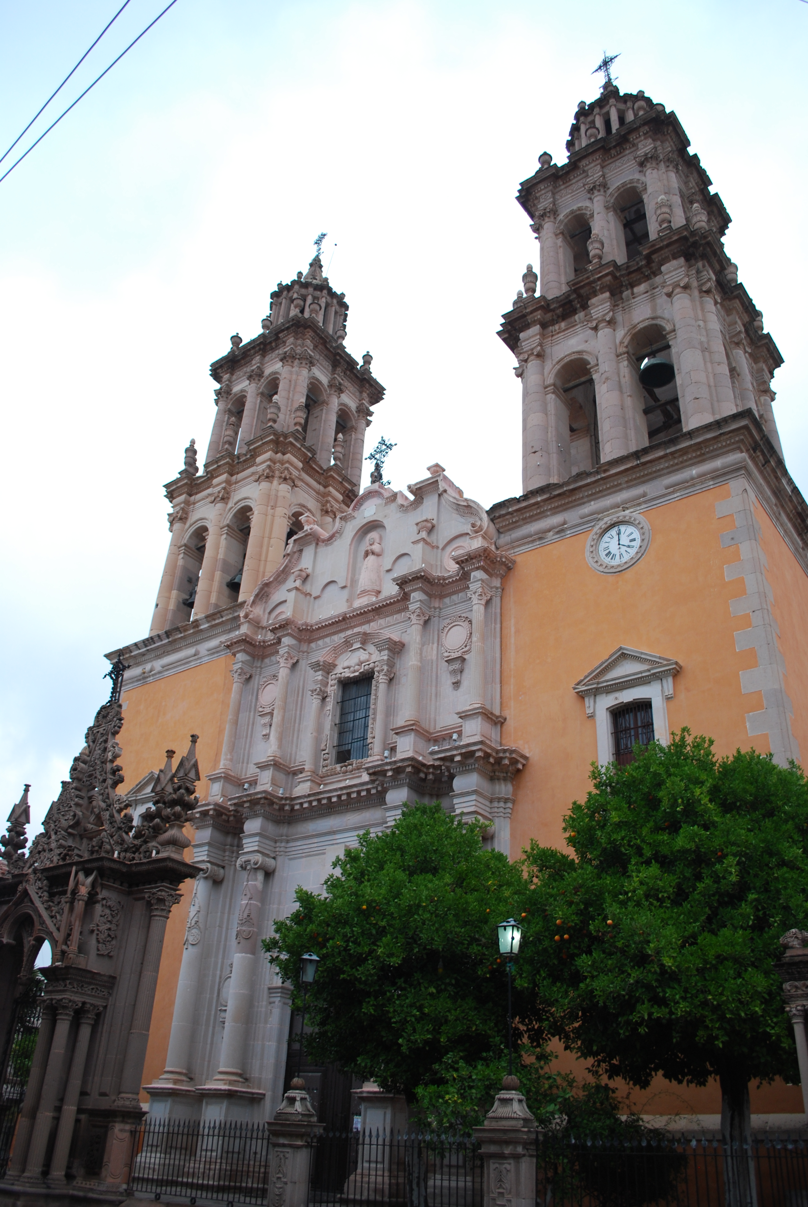 Santuario de la Soledad in Jerez, Zacatecas